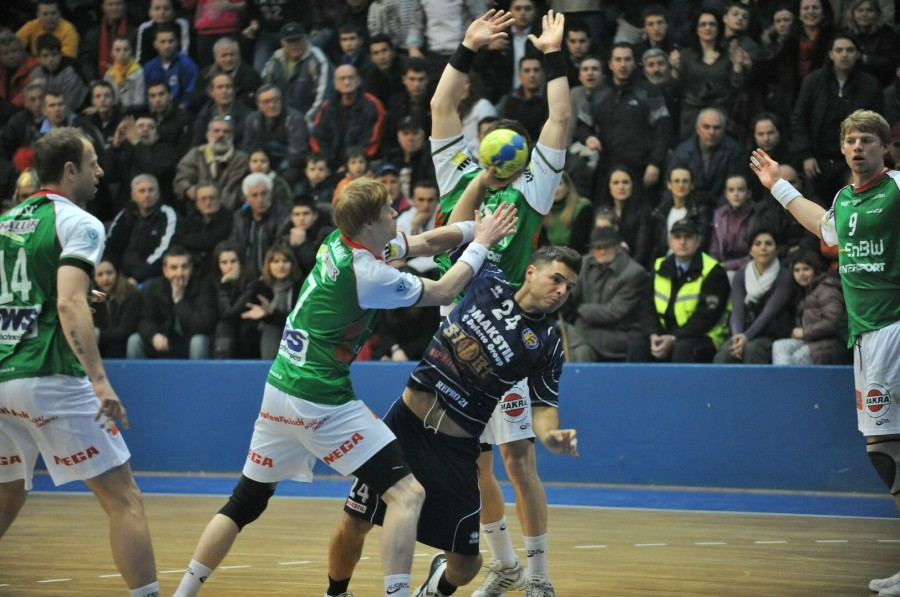 Nikola Stojcevski, macedonian handballplayer, HC Metalurg- Göppingen 10/11